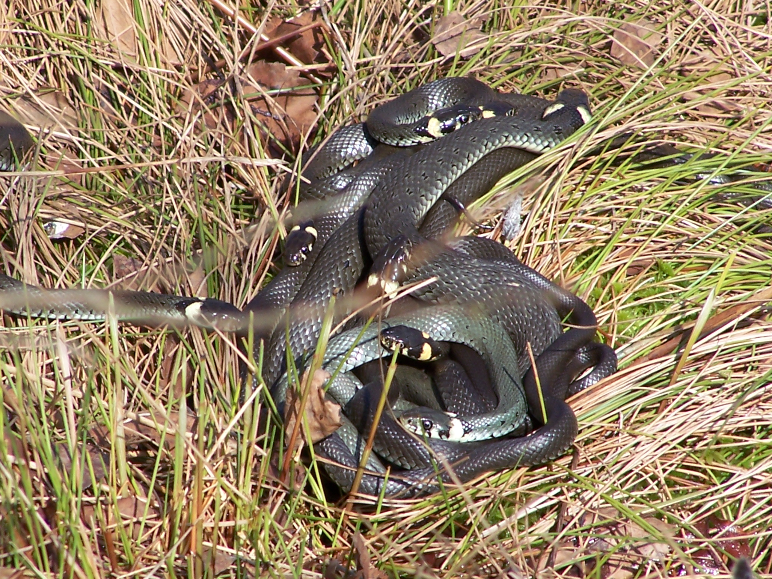 Grass snakes (natrix natrix) in northern Germany. In spring they gather in groups for copulation. There are always more males than females in such a group. The males are smaller than the females.